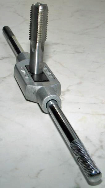 Tap M20 and tapwrench